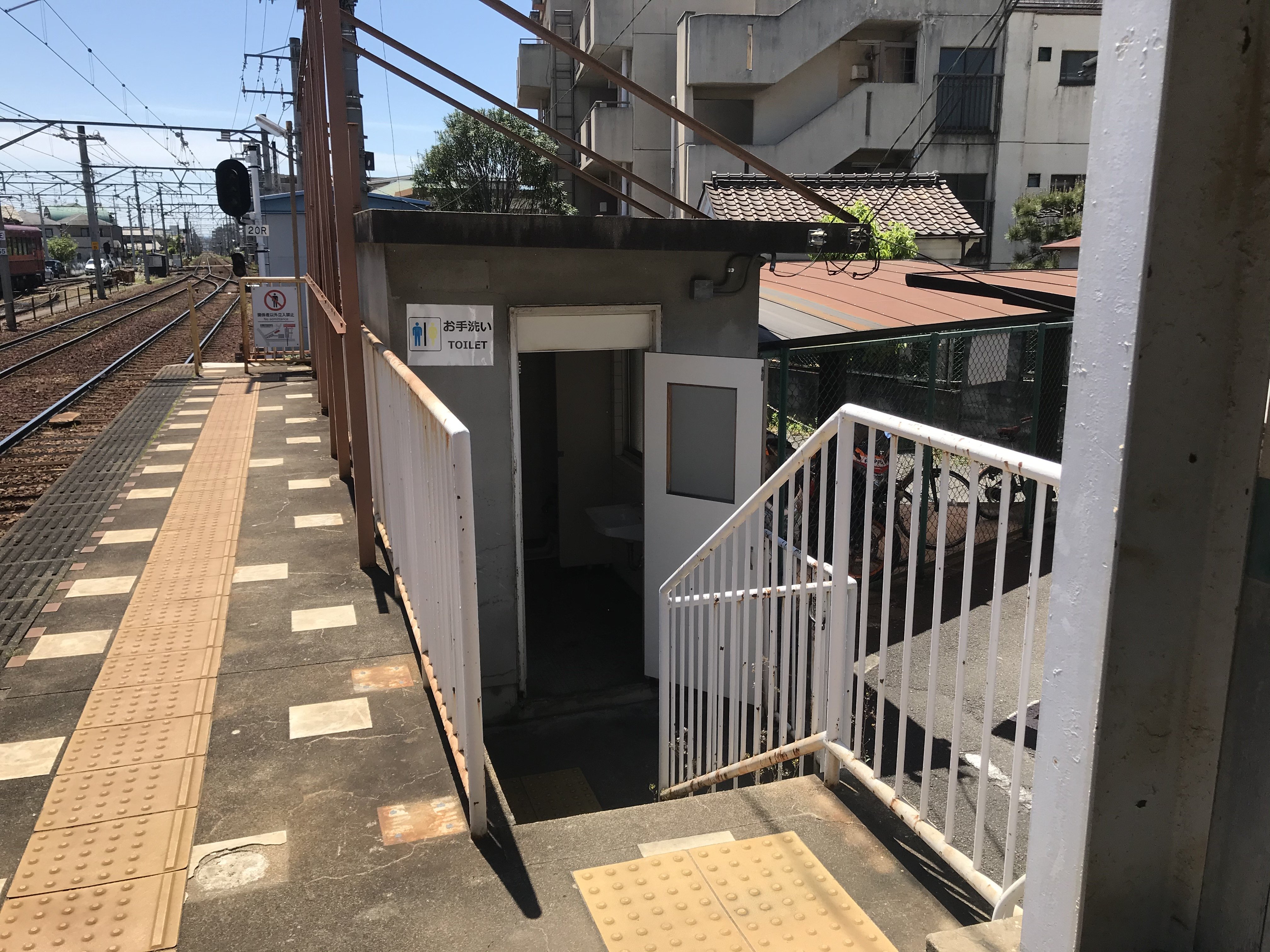 Toilet at the south end of Eizan Electric Railway Shugakuin station Yase Hieizan guchi bound platform